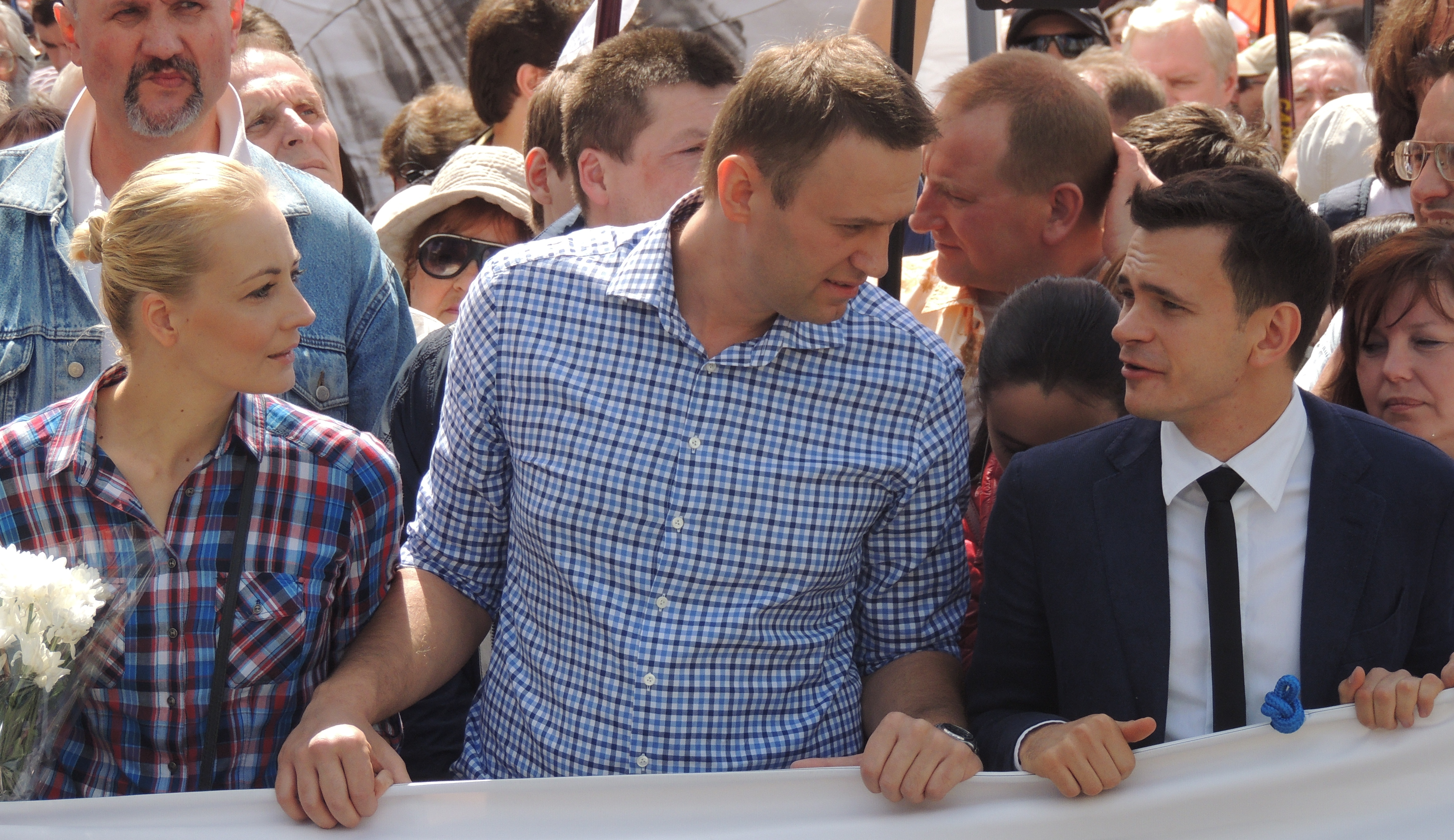 Yulia Navalny, Alexey Navalny and Ilya Yashin at Moscow rally 2013-06-12